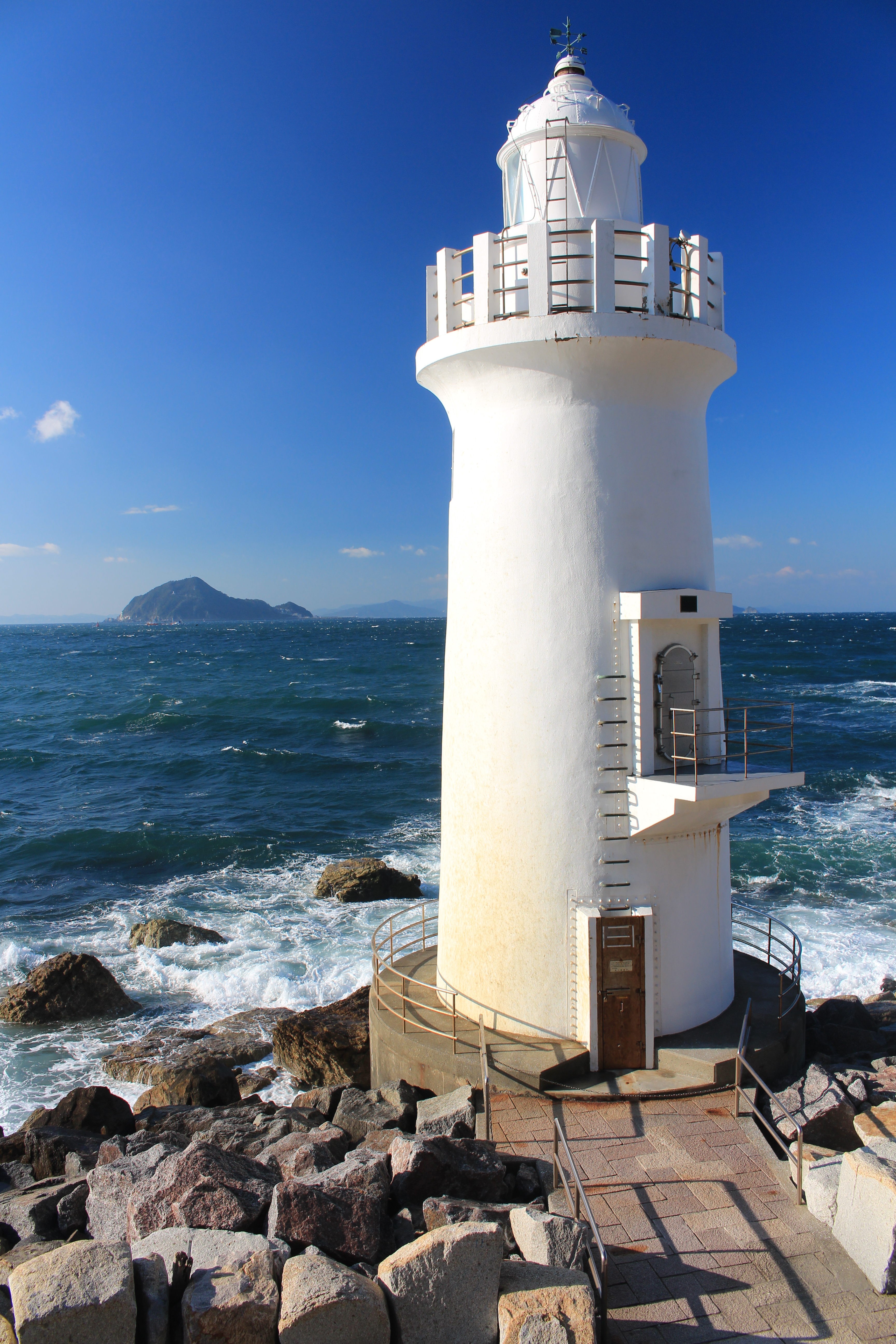 Irago Lighthouse and Kami Island, in Ise Bay, Japan.